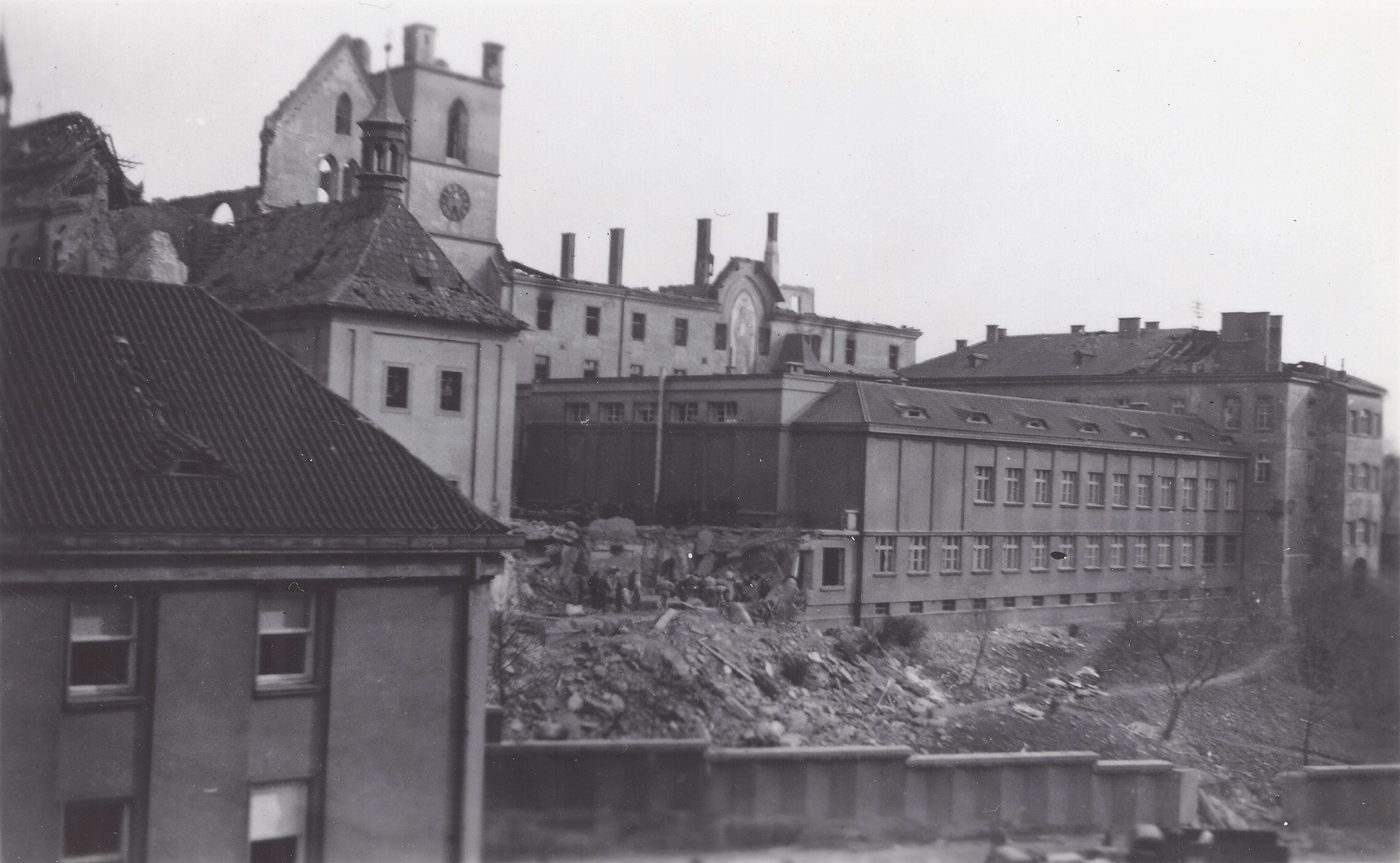 Emauzy monastery in Prague, the day after the bombing of March 14, 1945